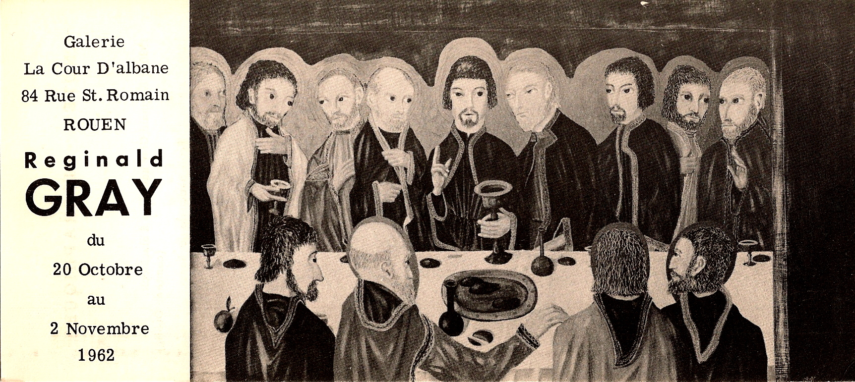 painting on wood panel